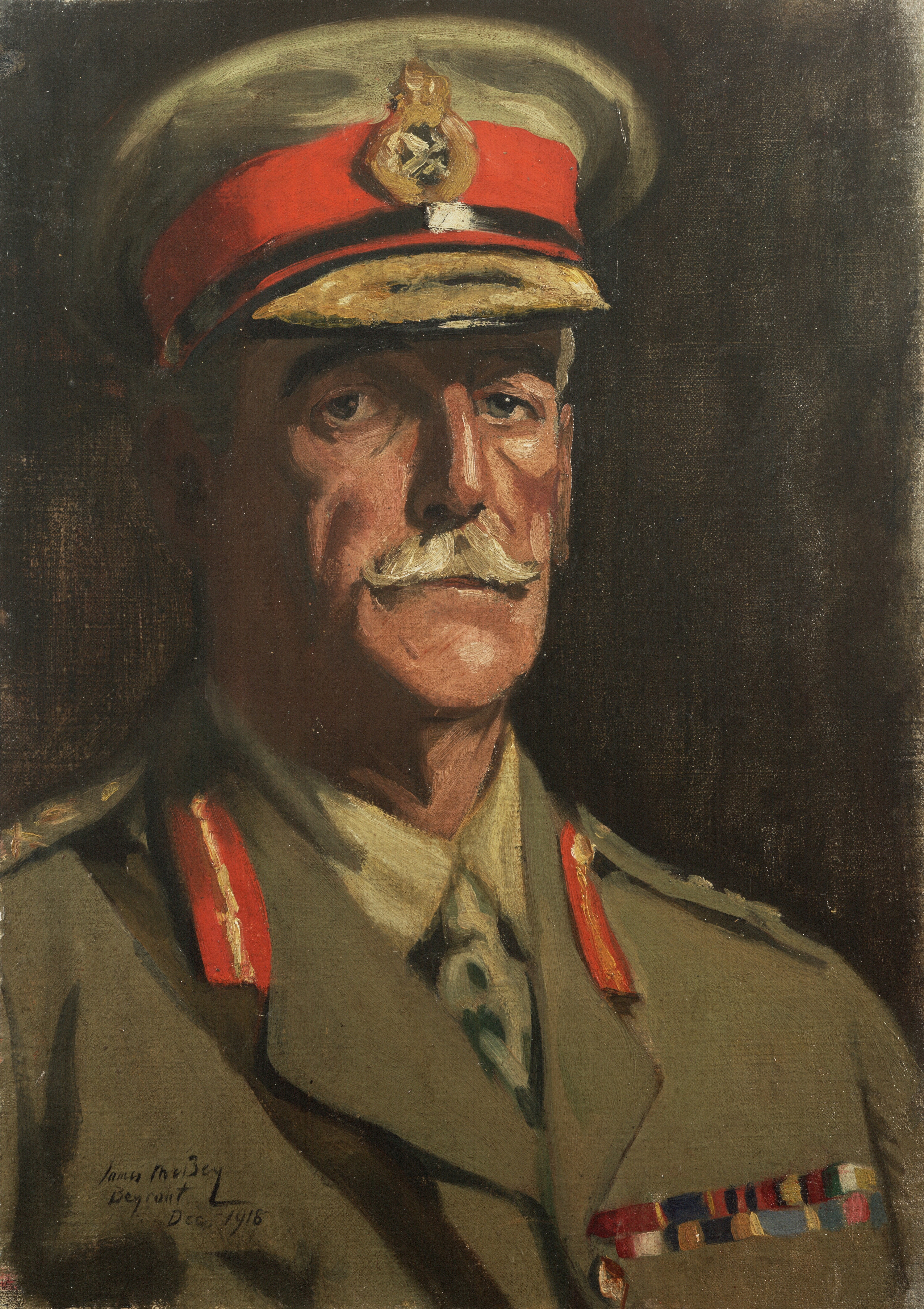 Portrait of General Sir Edward Bulfin Edward Bulfin was born in Woodtown Park, Rathfarnham, Co Dublin the second son of Patrick Bulfin and Teresa Clare Carroll. He was educated at Stonyhurst College, and then at Kensington Catholic Public School. Although he attended Trinity College, Dublin, he did not take a degree, choosing a military career instead. As General during World War I, he established a reputation as an excellent commander. He was most noted for his actions during the First Battle of Ypres, when he organized impromptu forces to slow down the German assault.